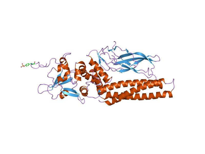 Cartoon representation of the molecular structure of protein registered with 1uur code.